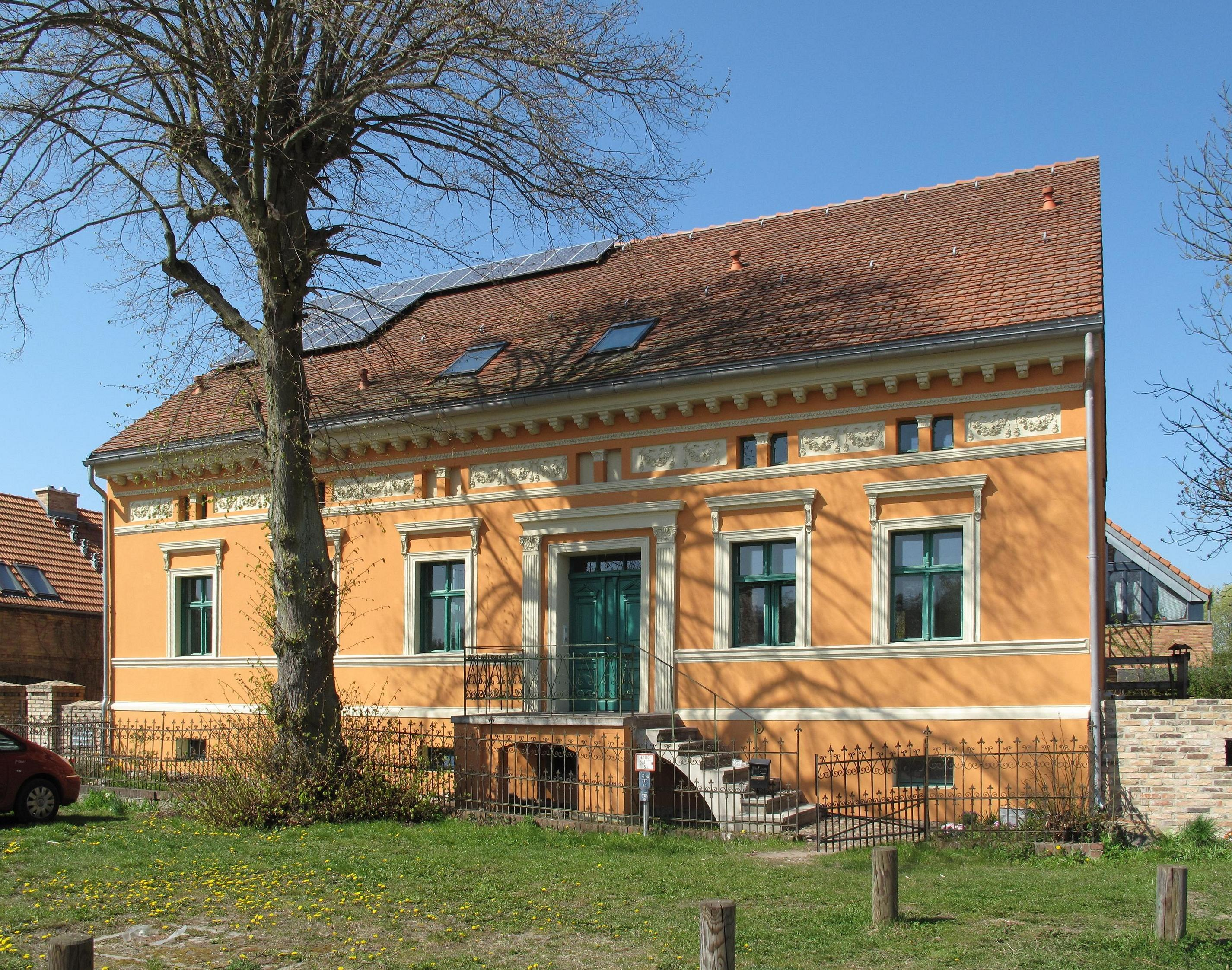 Historic village centre of Wildenbruch, restored farmhouse in the Dorfstraße (german for: village street). Wildenbruch is a part of Michendorf in the district Potsdam-Mittelmark, state Brandenburg, Germany.